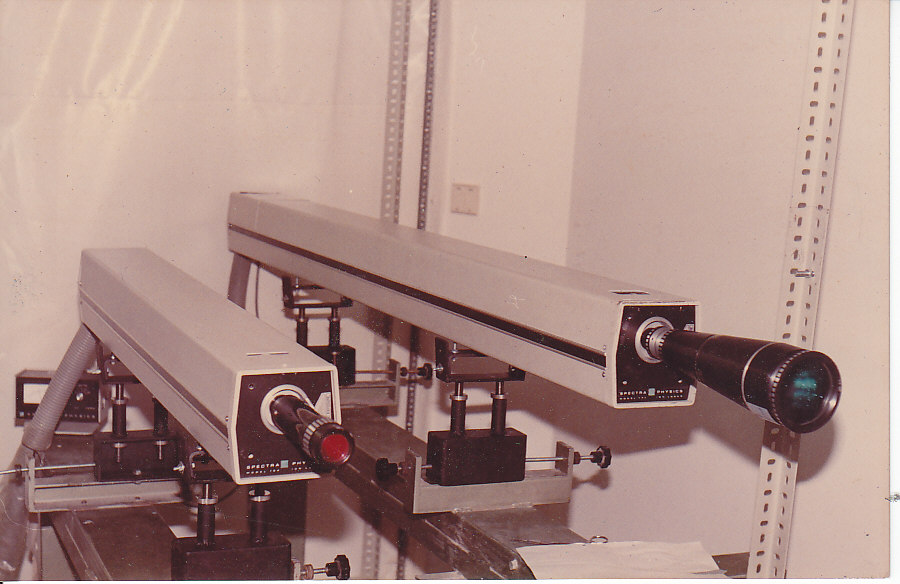 Early laser installation laserscape Cassel